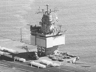 USS Enterprise (CVAN-65), February 10, 1962. Official USN photo #1059659, released from United States Naval Photographic Center, United States Naval Station, Anacostia, Washington 25, D.C.